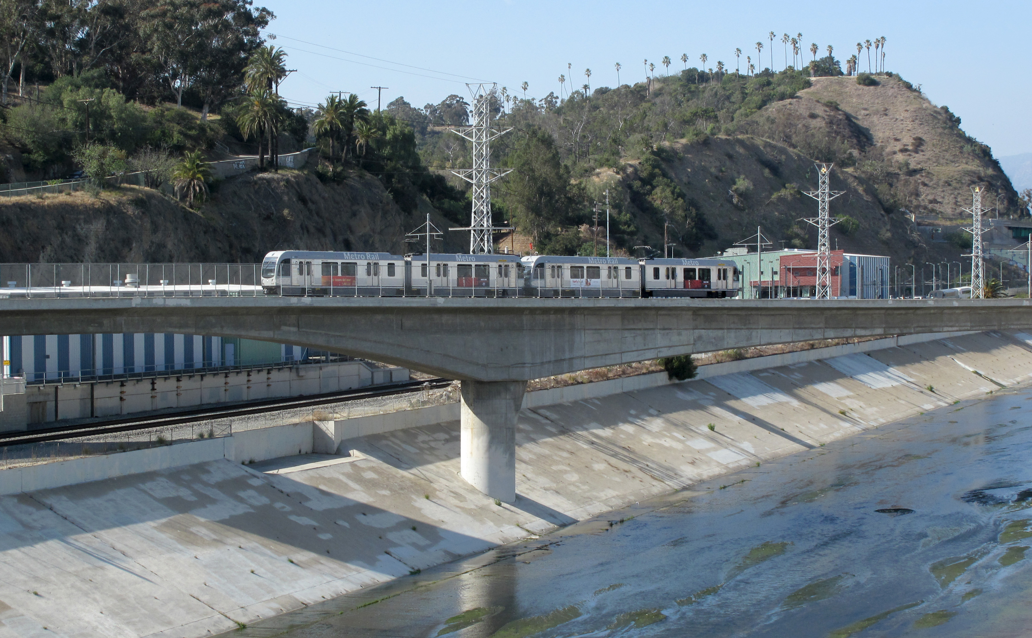 Gold Line light rail train crossing the Los Angeles River. Elysian Park is in the background.